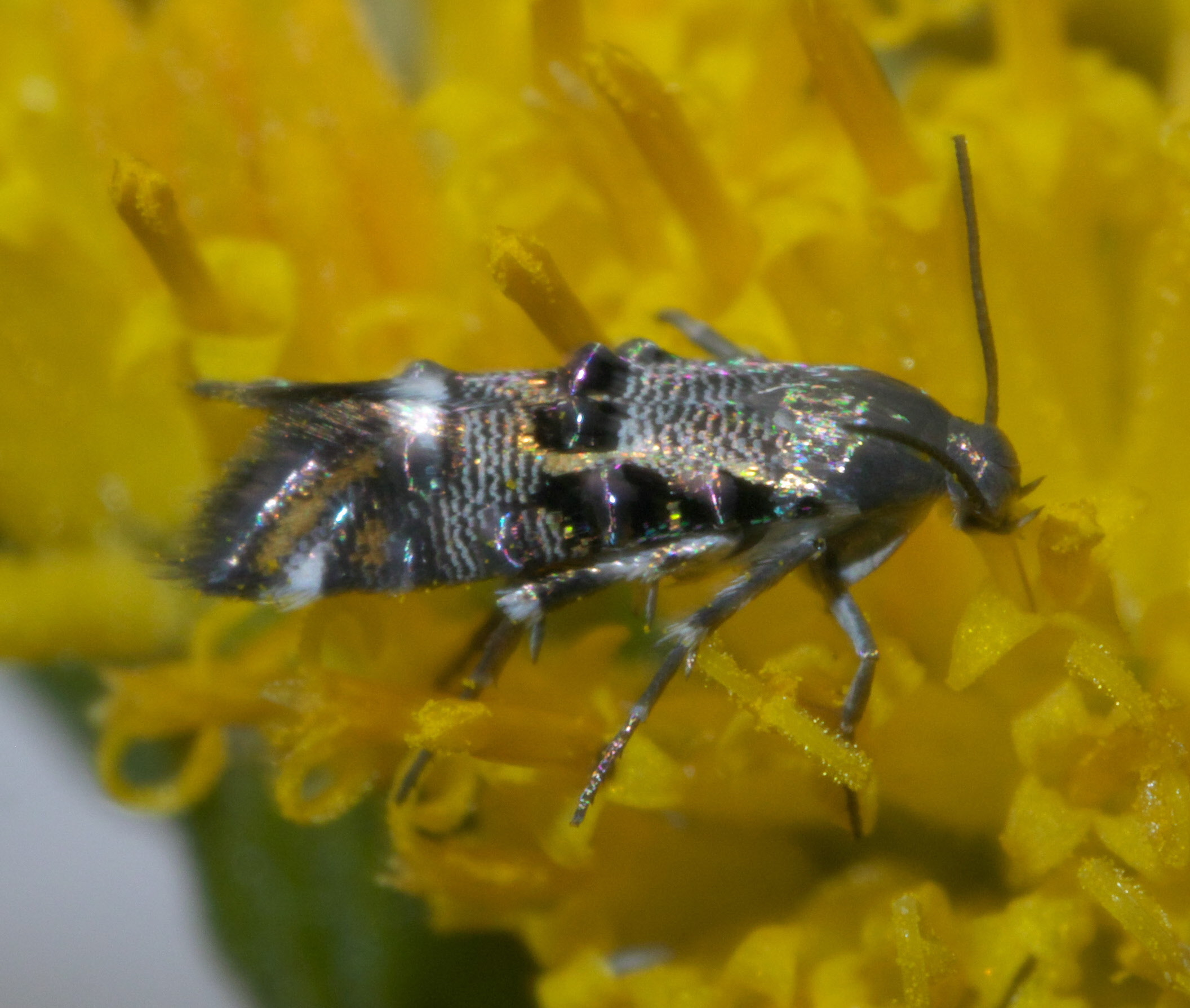 Lithariapteryx abroniaeella, Hodges #2510, Size: 5.5 mm, ID Confidence: 95